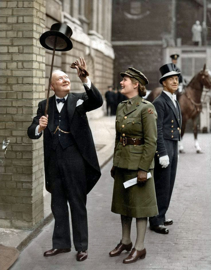 This is Tuesday 9th November 1943 outside the Mansion House in the City of London. The Prime Minister Winston Churchill is there to attend the annual Lord Mayor's Luncheon, he is with his daughter Mary Soames née Churchill. I can't be sure whether this photograph was taken before or after the Lunch, but on balance it's probably after Lunch. Mr Churchill was famous for the amounts of alcohol he could put away. A City of London mounted officer can be seen in the background. Once again the Geotag software has failed to show the correct location for this photograph, this is in the City of London, not Southwark!